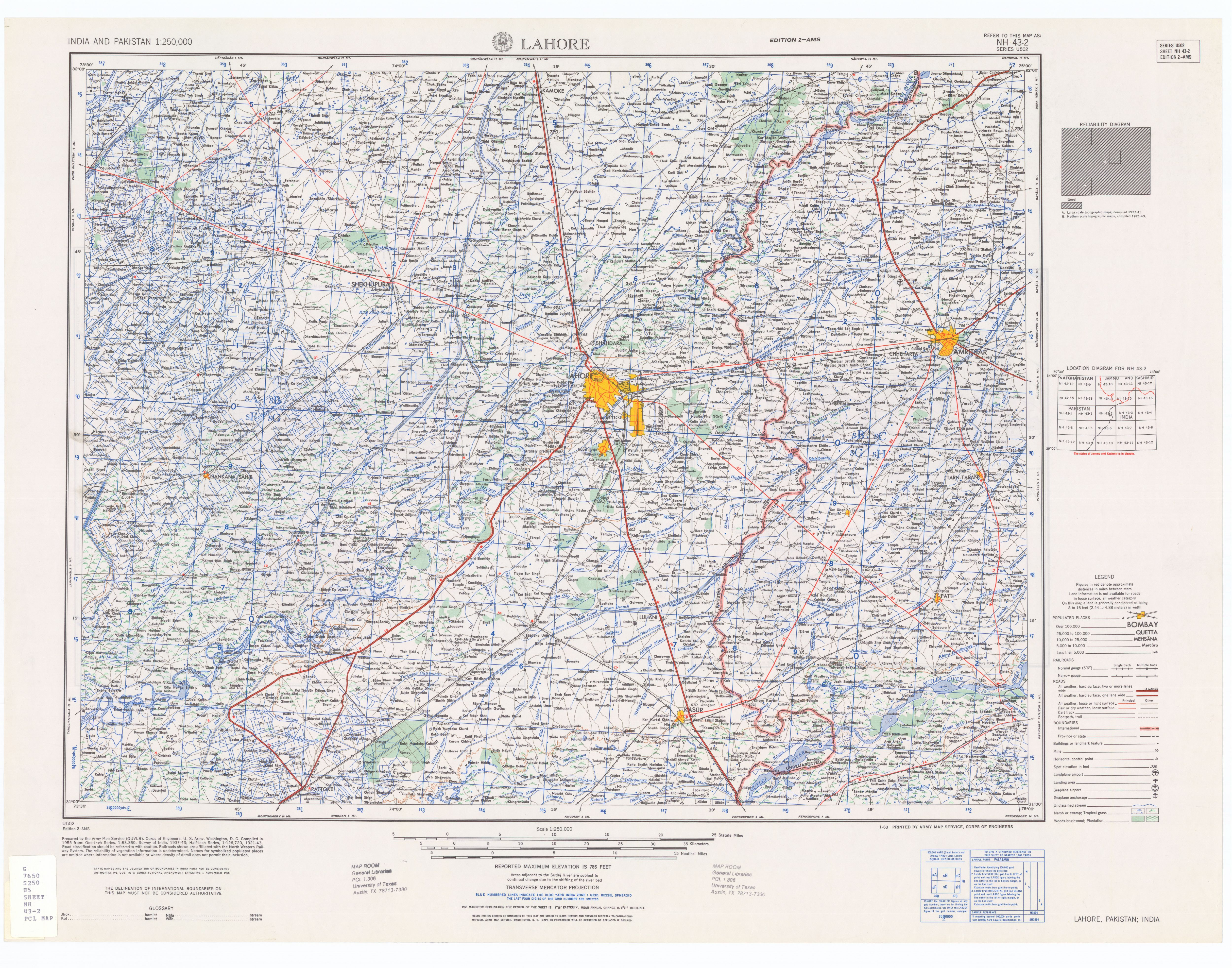 NH 43-2 Lahore. Tile of the Map India and Pakistan 1:250,000. Series U502, U.S. Army Map Service, 1955